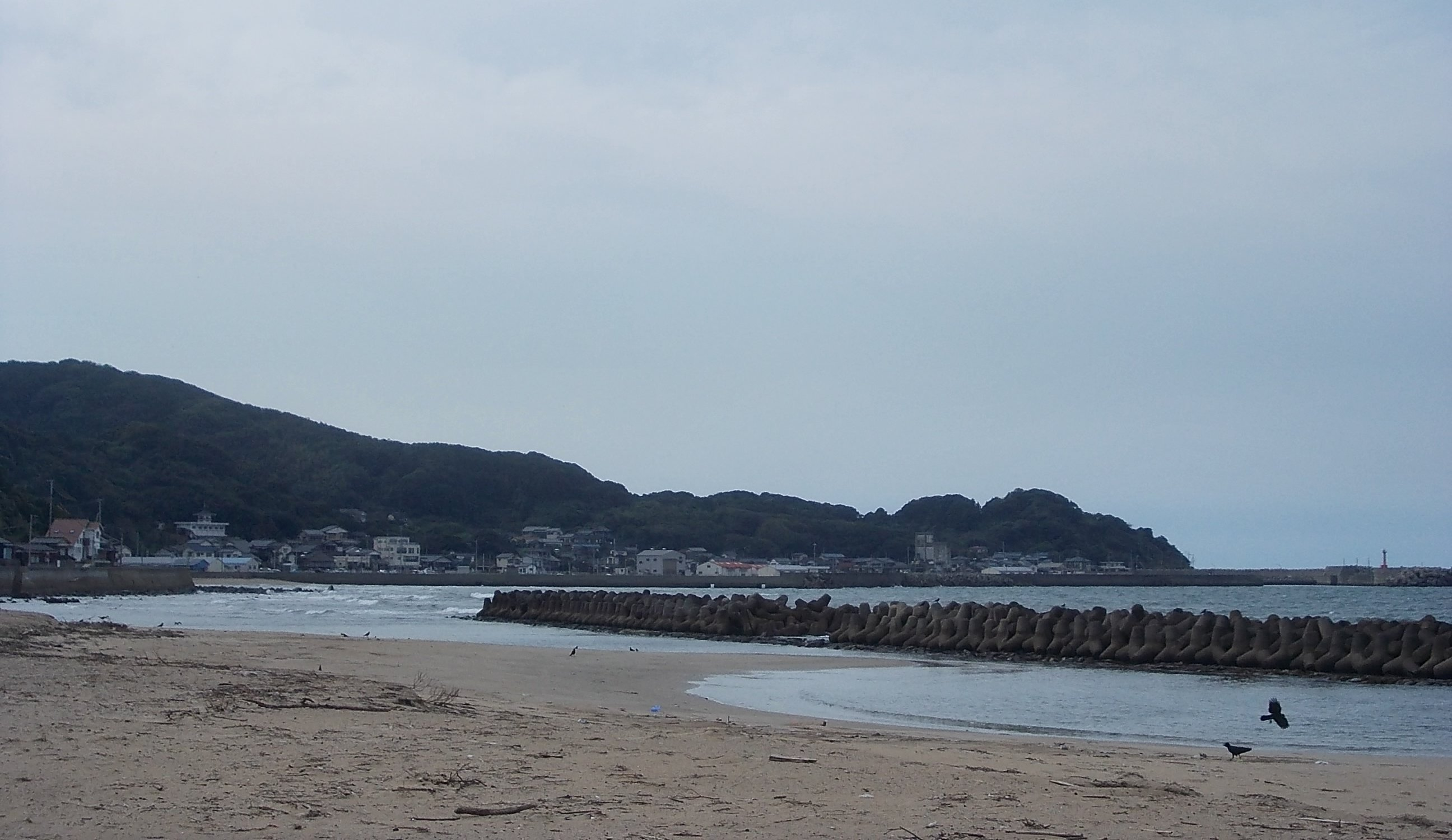 A view of Hatsu Fishing harbor from the nearby Hatsu beach in Okagaki Town, Fukuoka, Japan